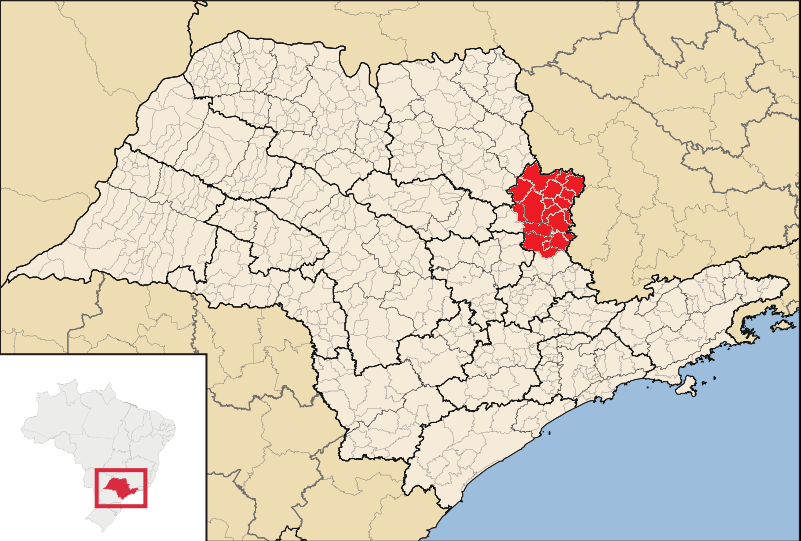 Roman Catholic Diocese of São João da Boa Vista, São Paulo, Brazil